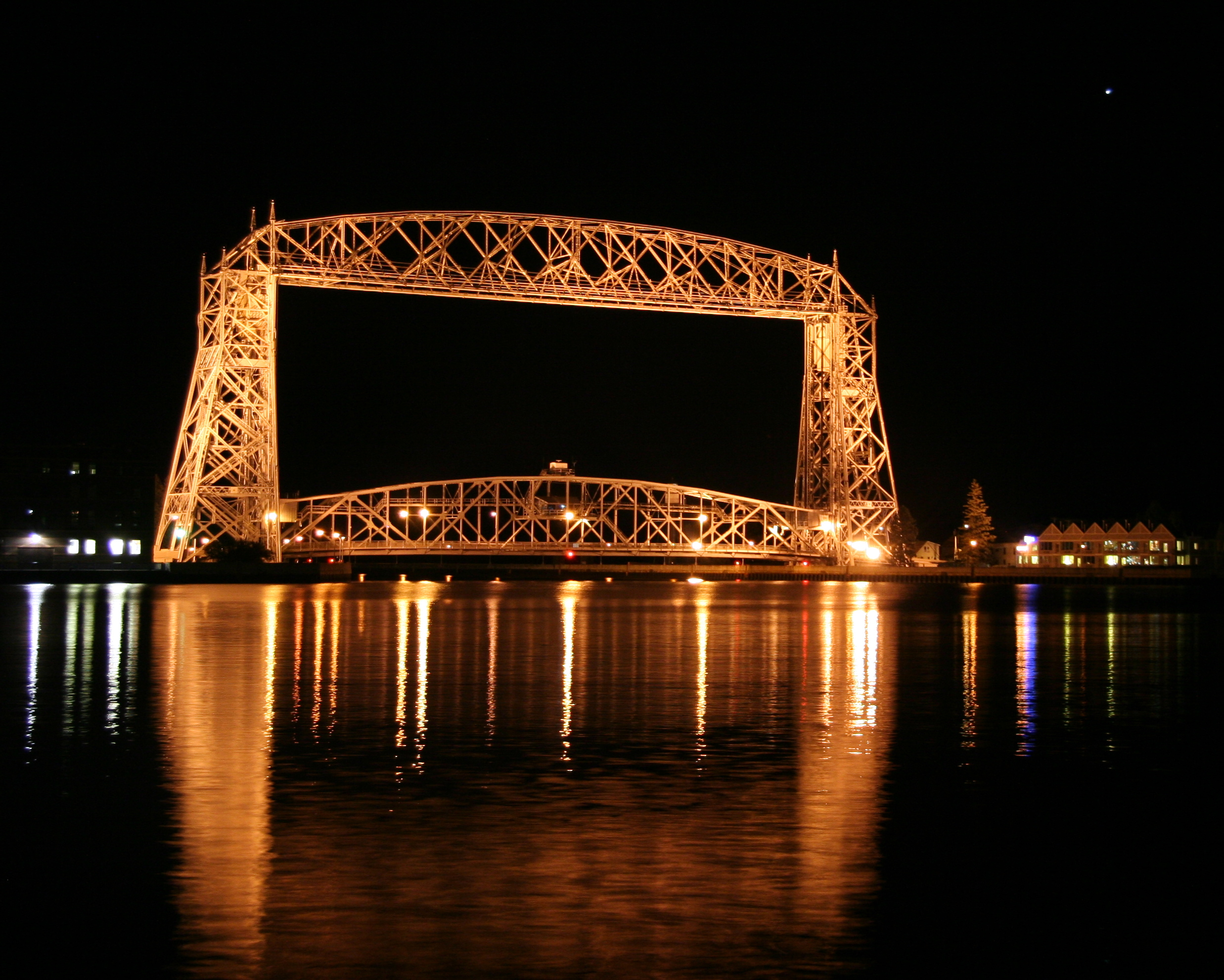 Night view looking east at the Aerial Lift Bridge reflected in the Lake Superior harbor in Duluth, Minnesota. In the upper right corner, the planet Jupiter is seen rising above Minnesota Point.